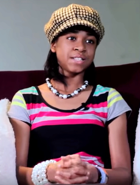 Zuriel Oduwole, one of the youngest interviewers in the world today on NdaniTV Sptotlight 8 Jan 2015